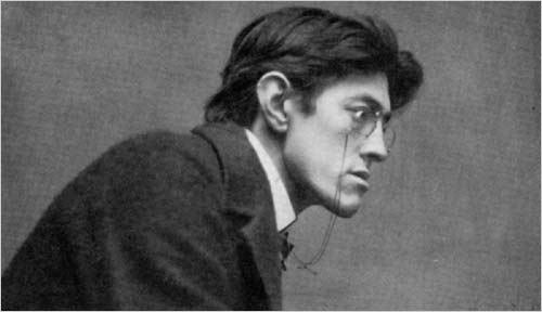 Portrait of Sadakichi Hartmann by Zaida Ben-Yusuf.